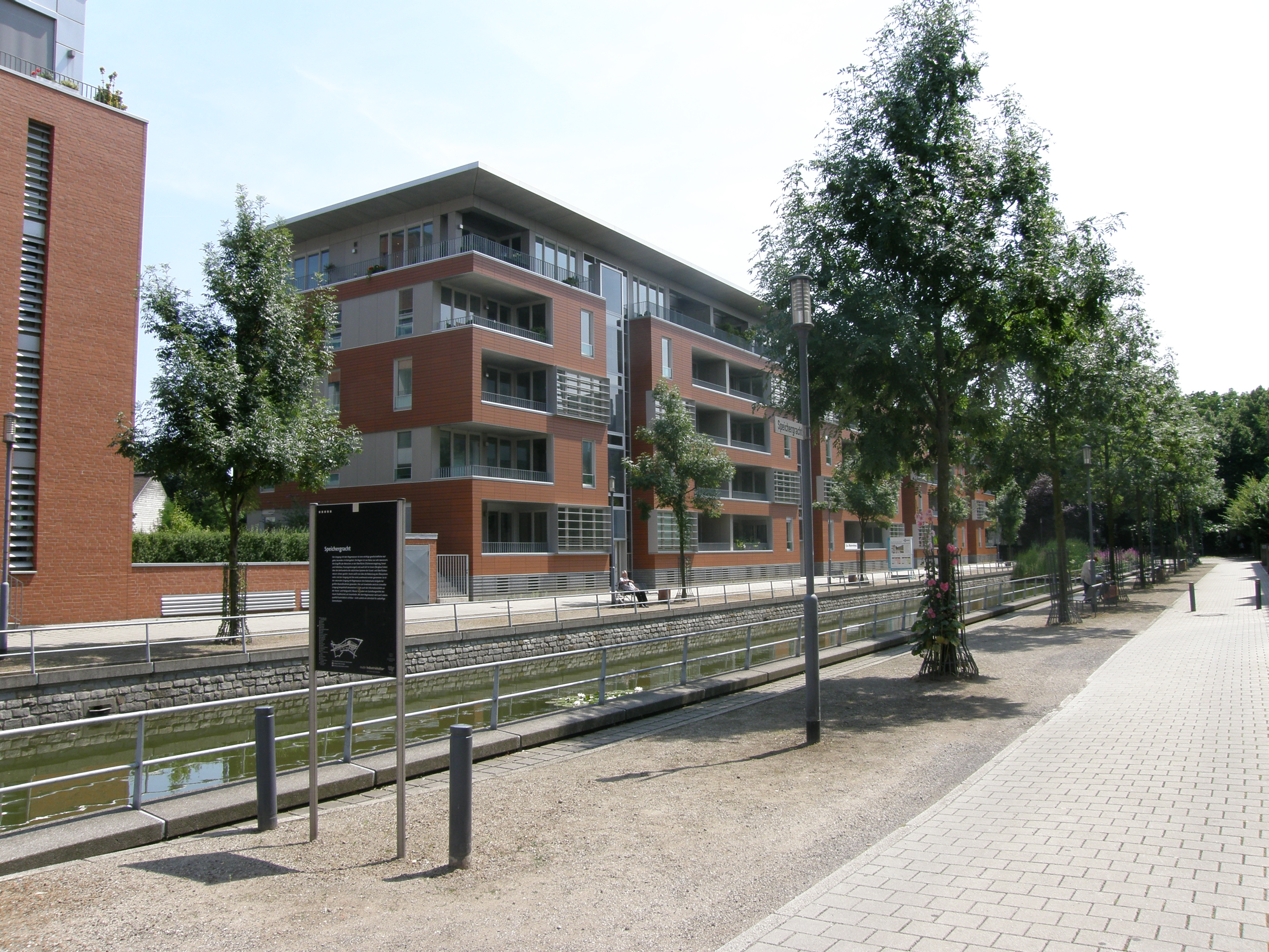 Speichergracht in Duisburg, Information from Route der Industriekultur